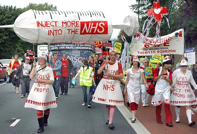 I have made this photo myself